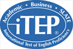 Logo for iTEP